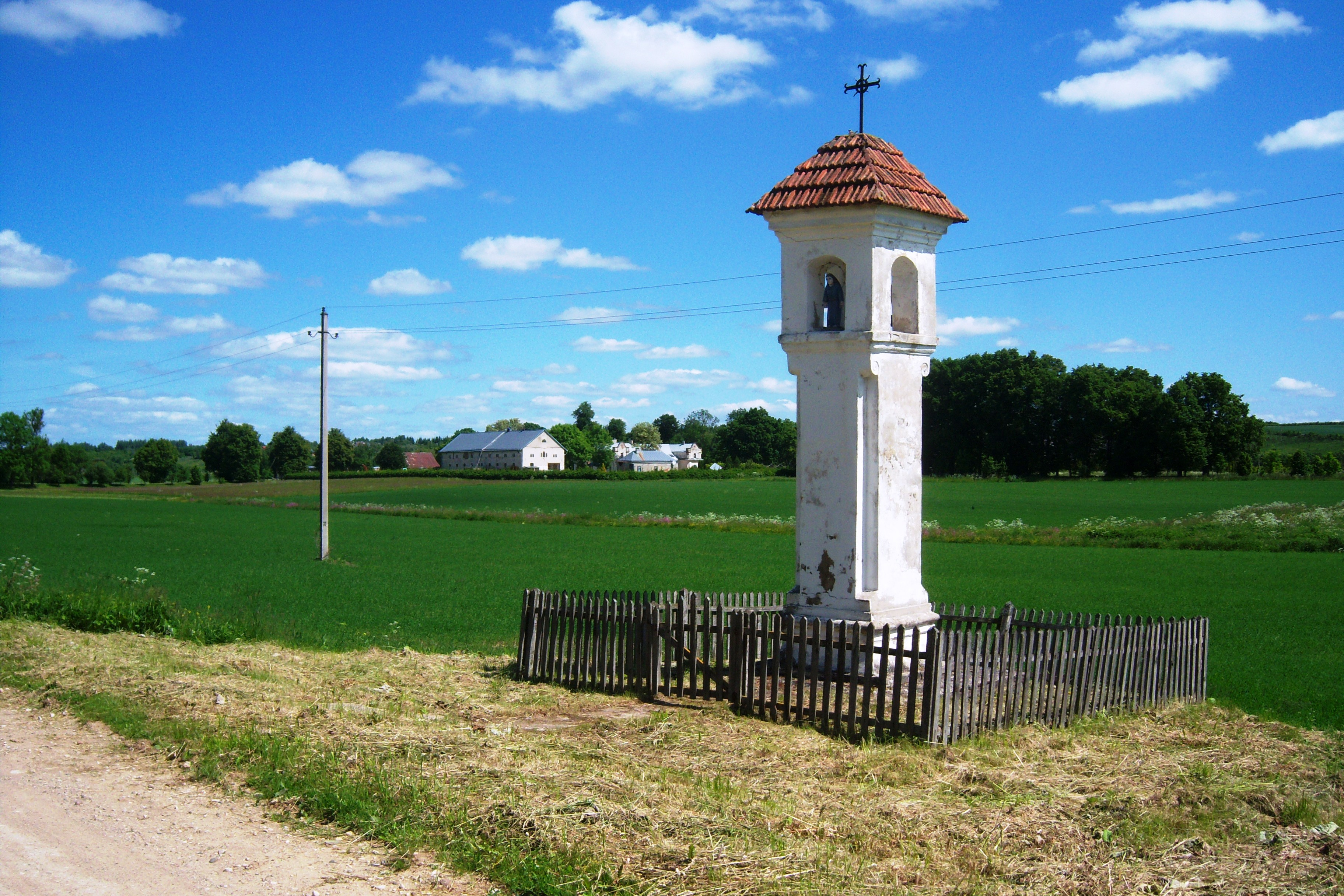 Wayside shrine in front of Žemaitkiemis Manor near Babtai, Lithuania